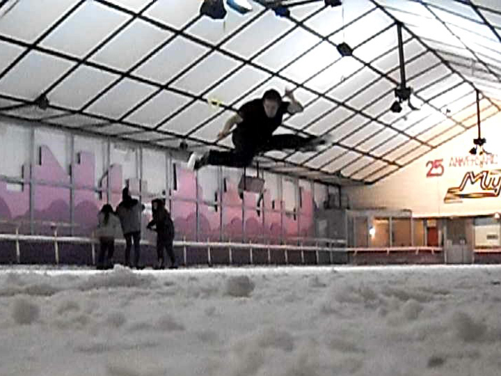 Ariel Lombardi, from Argentina, doing a Scissor Jump, a trick of the sport of Xtreme Ice Skating.